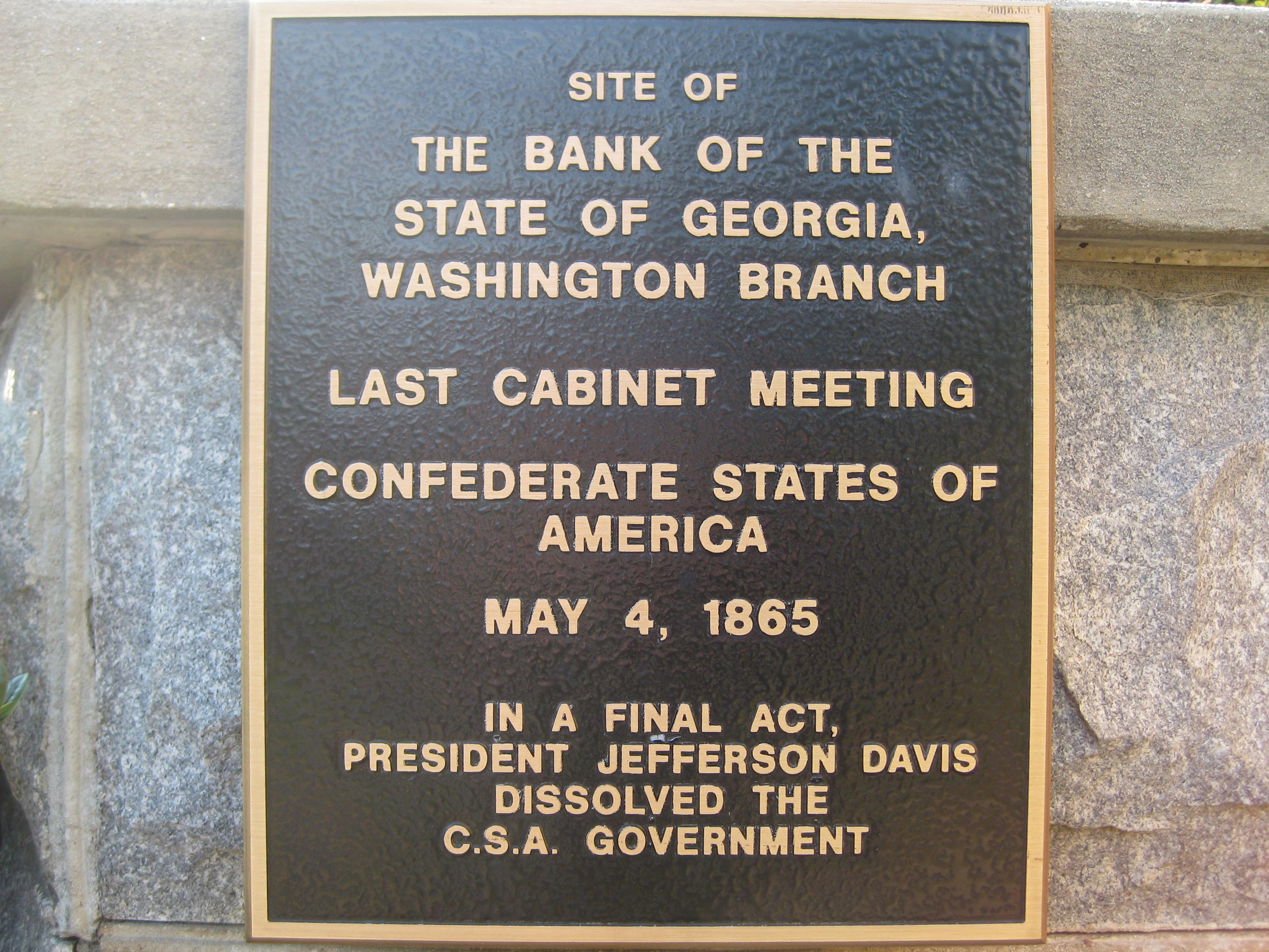 Plaque at the Wilkes County Courthouse in Washington, Georgia, former site of the Georgia State Bank building, in which was held on May 4, 1865, the last meeting of Jefferson Davis and the Confederate Cabinet, and the government of the Confederate States of America was dissolved.